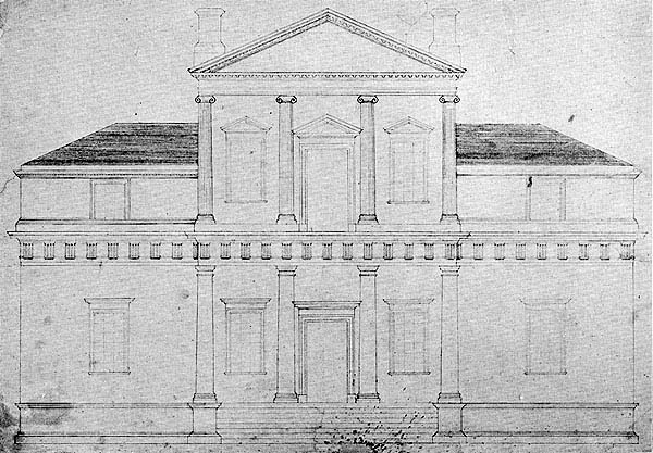 Drawing by Thomas Jefferson showing the original front elevation of his home Monticello, located in Albemarle County, Virginia. Image from "Domestic Architecture of the American Colonies and of the Early Republic," by Fiske Kimball, New York, 1922, fig. 72. The original drawing is in Coolidge collection.